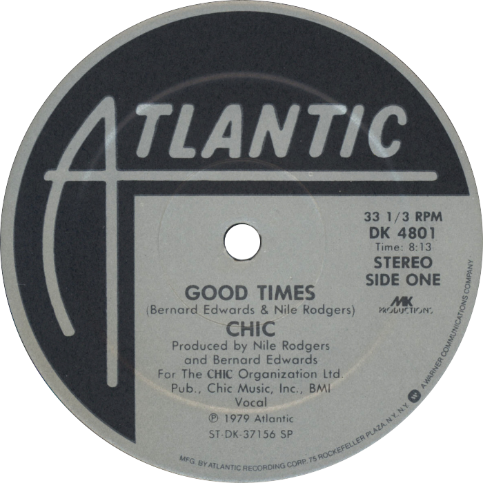 Side-A label for the US 12-inch vinyl single release (DK 4801) of "Good Times" by Chic